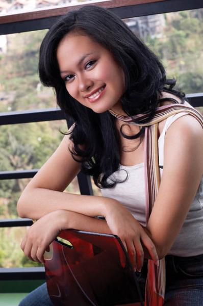 Widya Saputra Indonesian sports television presenter